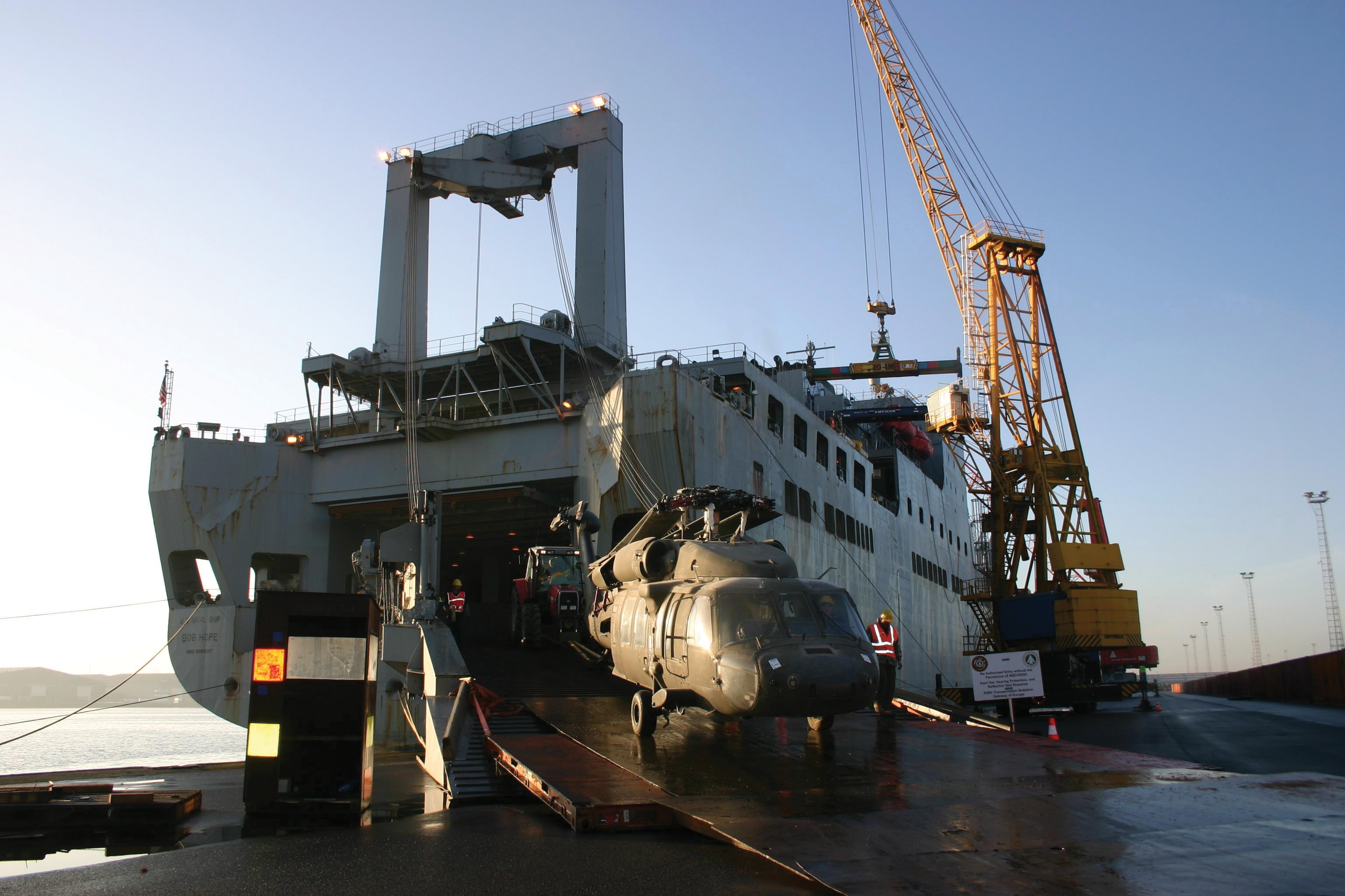 A helicopter is loaded aboard LMSR USNS Bob Hope in Antwerp, Belgium, for redeployment to the United States.